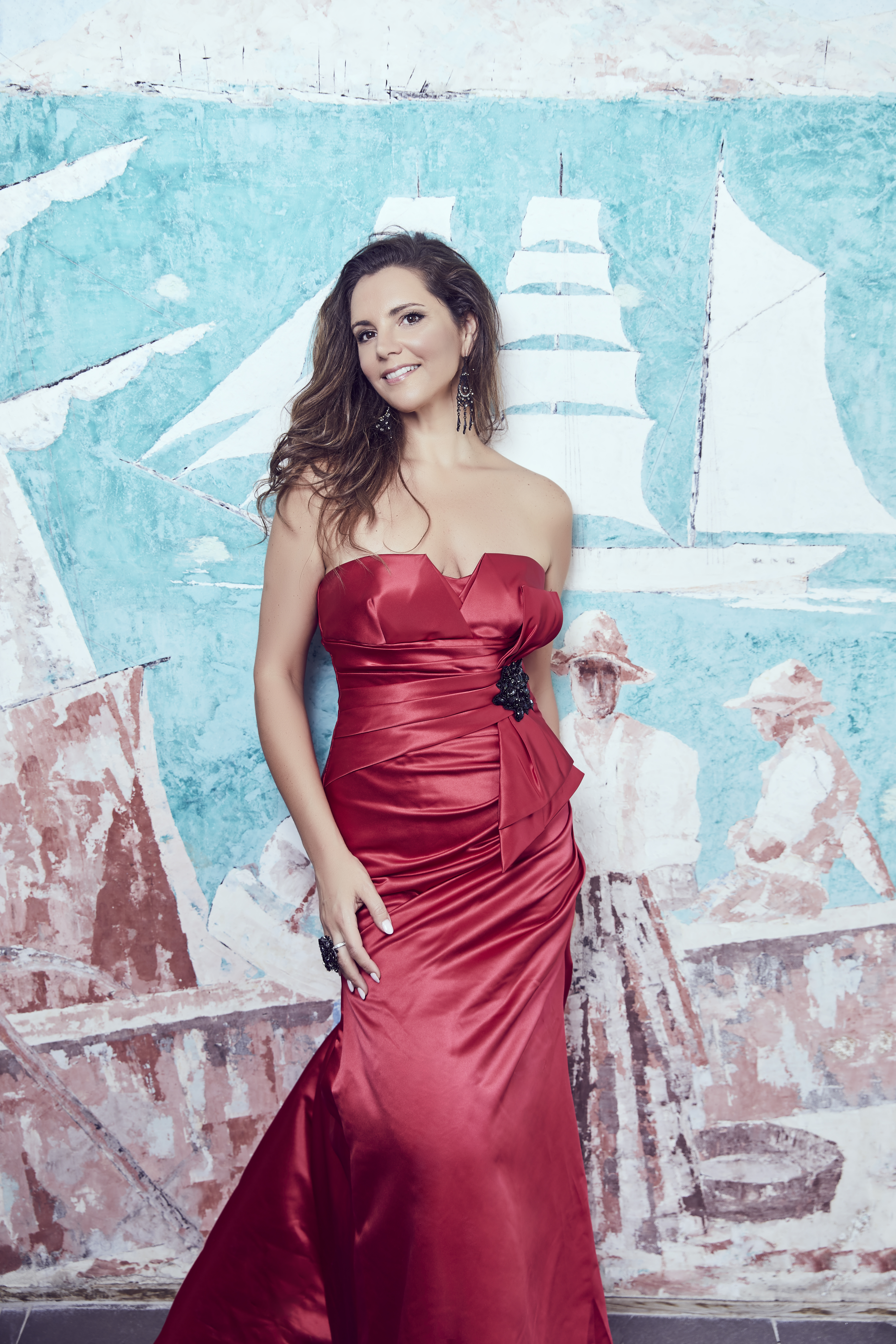 Virginia Tola - Opera Singer